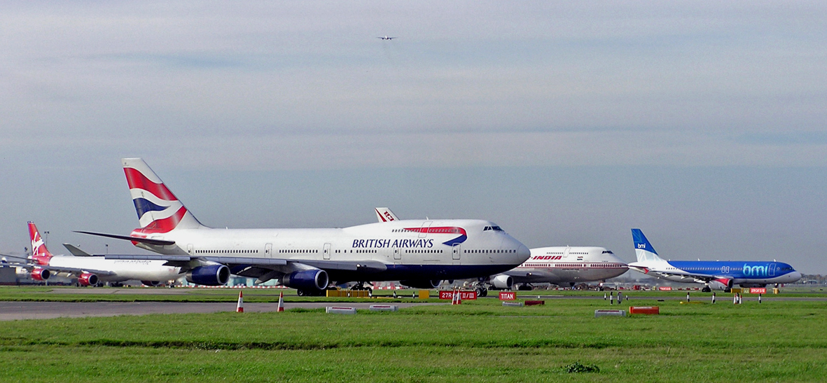 Queue at London Heathrow Airport